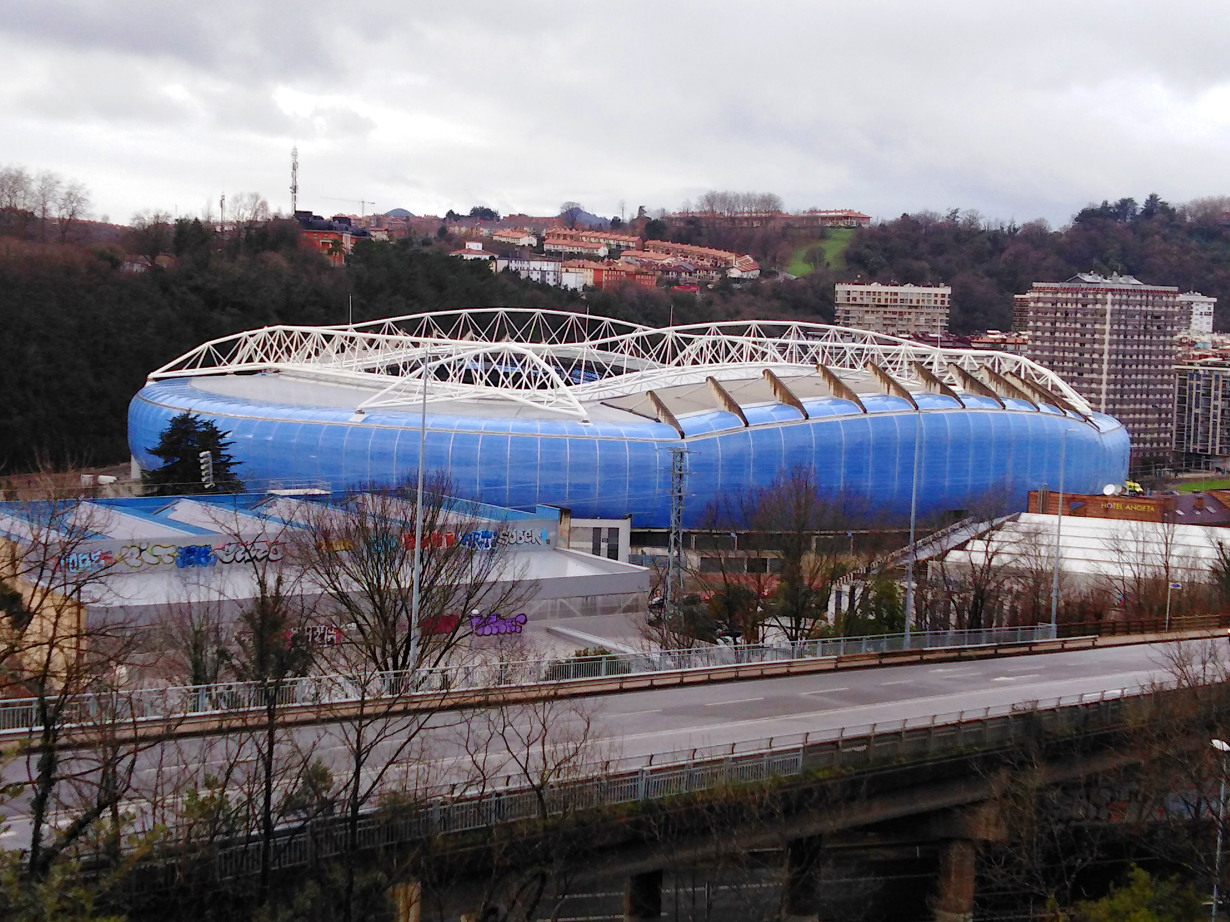 Anoeta stadium, Donostia-San Sebastian, Gipuzkoa, Basque Country